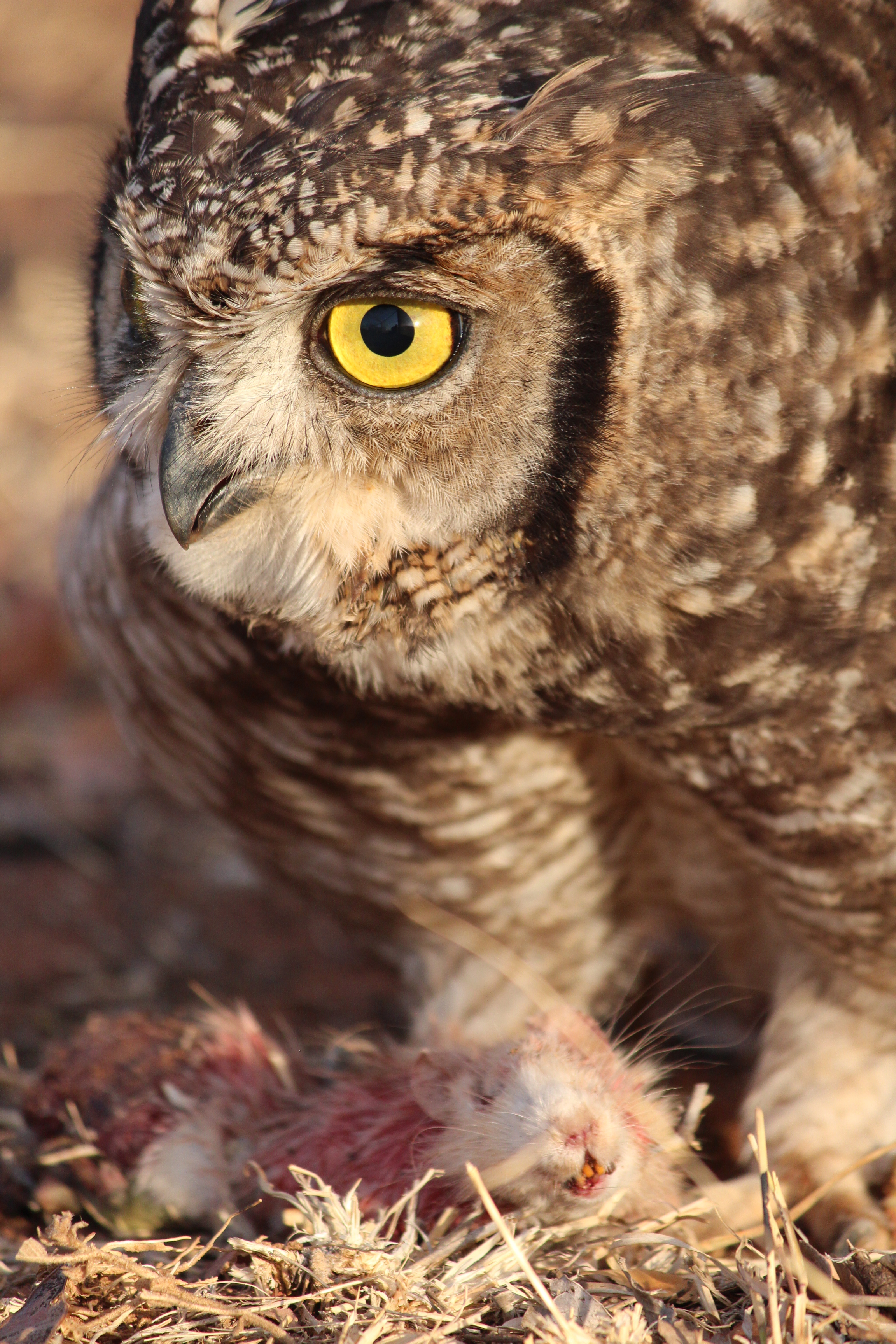 A Spotted eagle-owl is feeding on a large rat at Owl Rescue Centre, North West Province South Africa